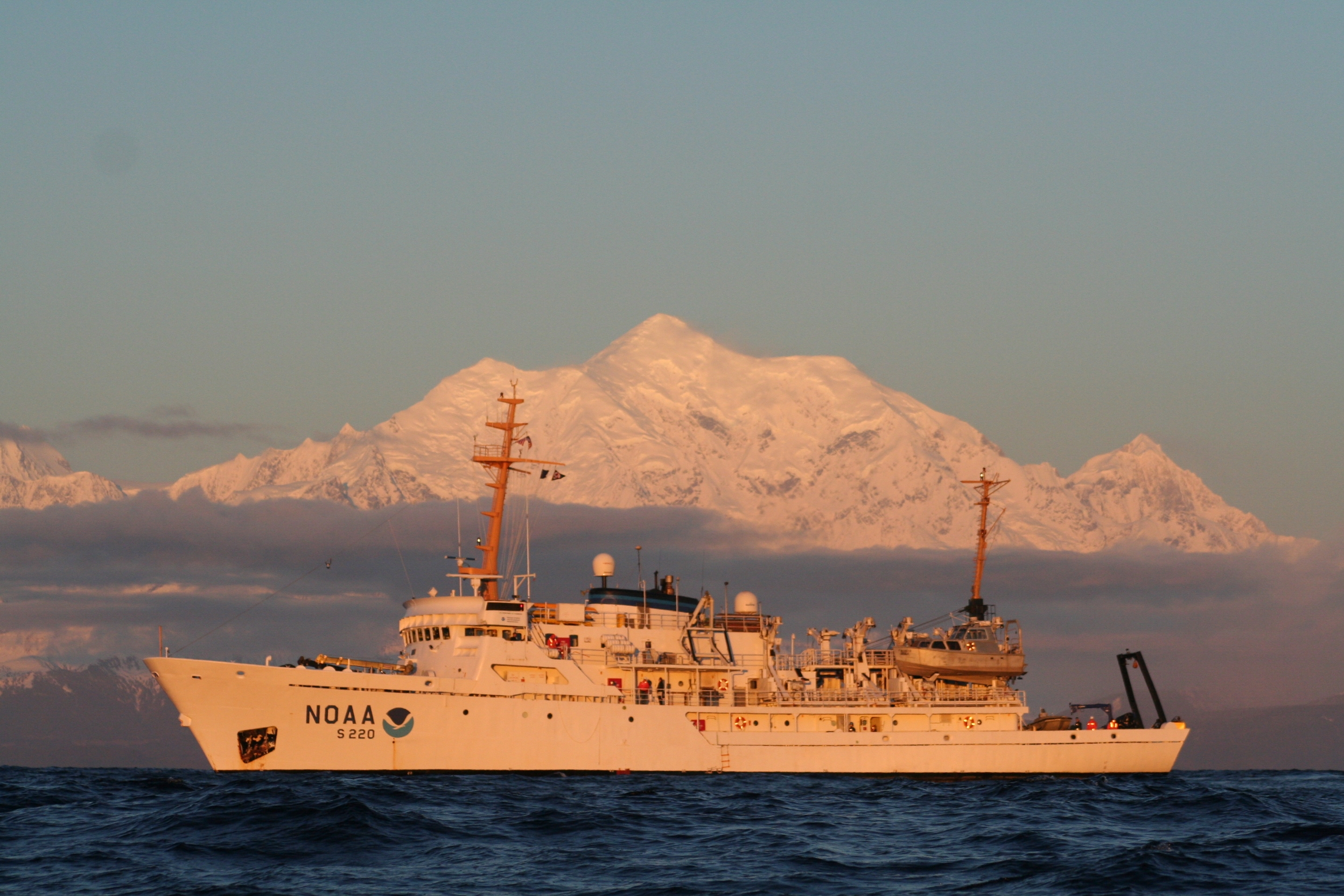 The National Oceanic and Atmospheric Administration survey ship NOAAS Faitweather (S 220) with her namesake, Mount Fairweather in Alaska, in the background.